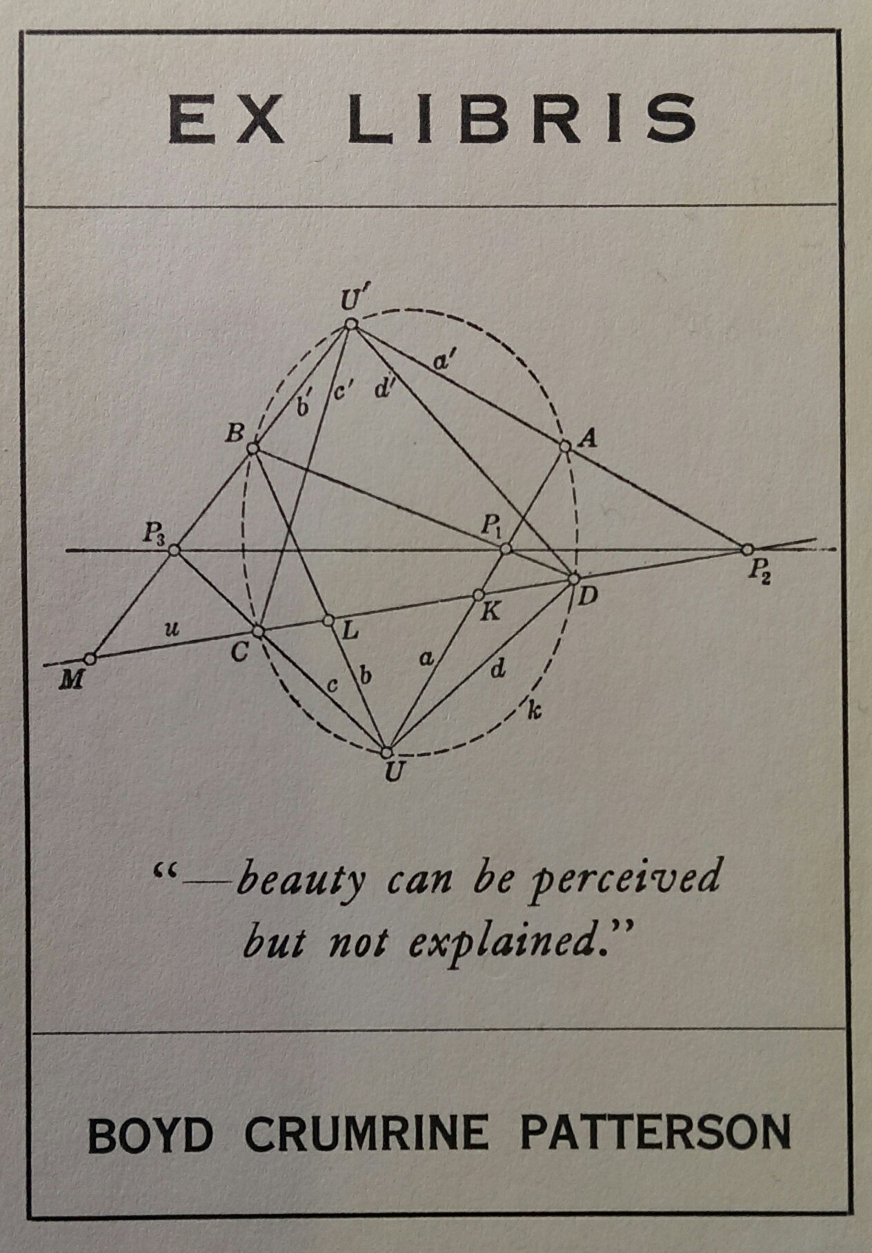 Ex Libris of Boyd Crumrine Patterson, as found in his copy of G. H. Hardy: A Mathematician's Apology, Cambridge, 1941; motto depicted: "beauty can be perceived but not explained" (Cayley)